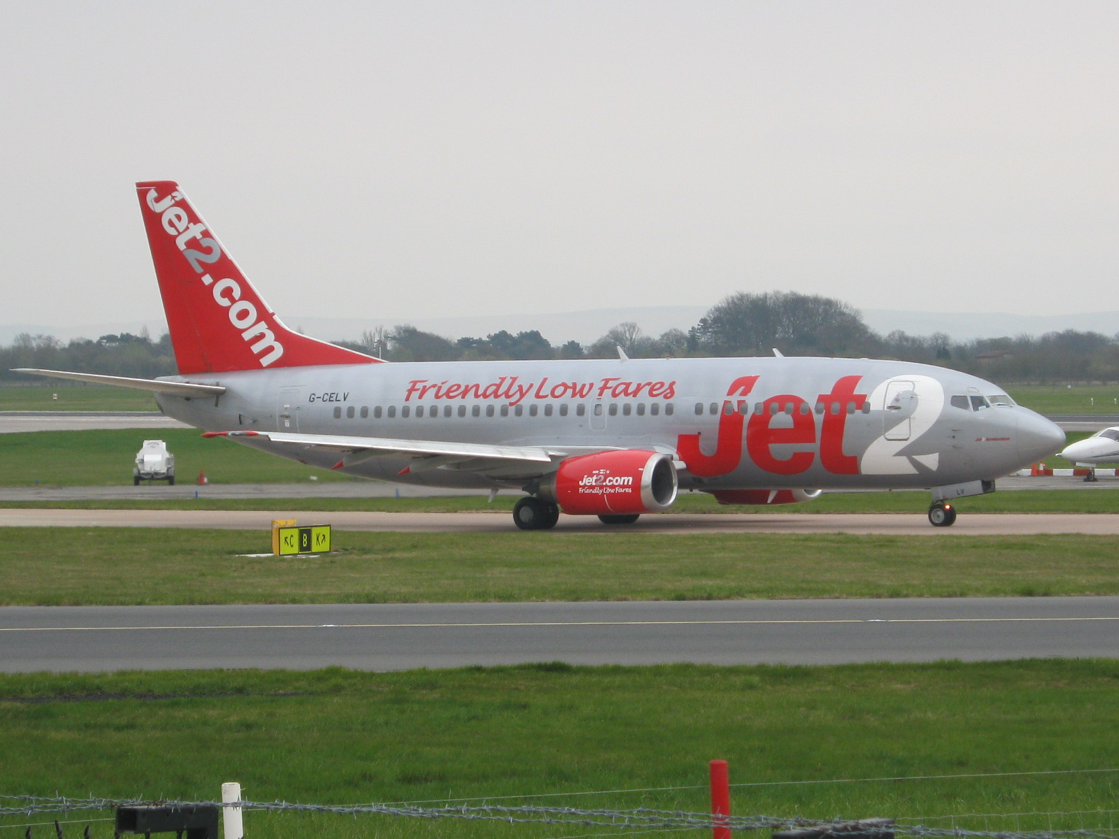 A Jet2 Boeing 737-300 G-CELV at Manchester Airport as LS933 bound for Salzburg